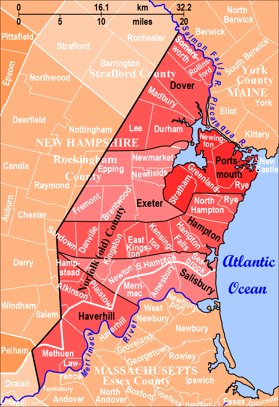 Norfolk County in Massachusetts and New Hampshire (created in 1643 part of Massachusetts Bay Colony) had six towns shown in red and black. These six towns are overlaid on a map of present-day Essex County in Massachusetts, Rockingham County in New Hampshire, Strafford County in New Hampshire, and surrounding towns with borders in white.